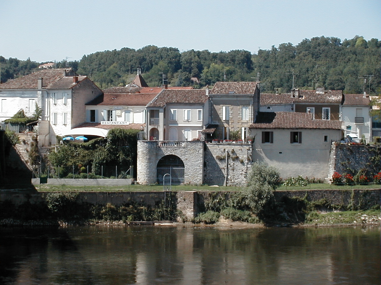 Port-Sainte-Foy-et-Ponchapt